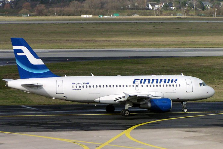 A Finnair Airbus A319 at Düsseldorf Airport.